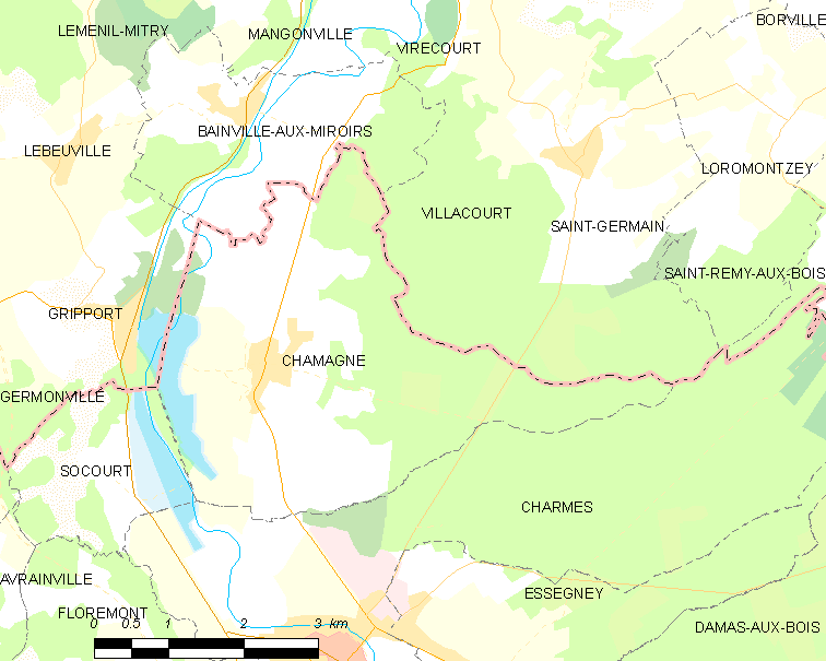 Map of French municipality Chamagne